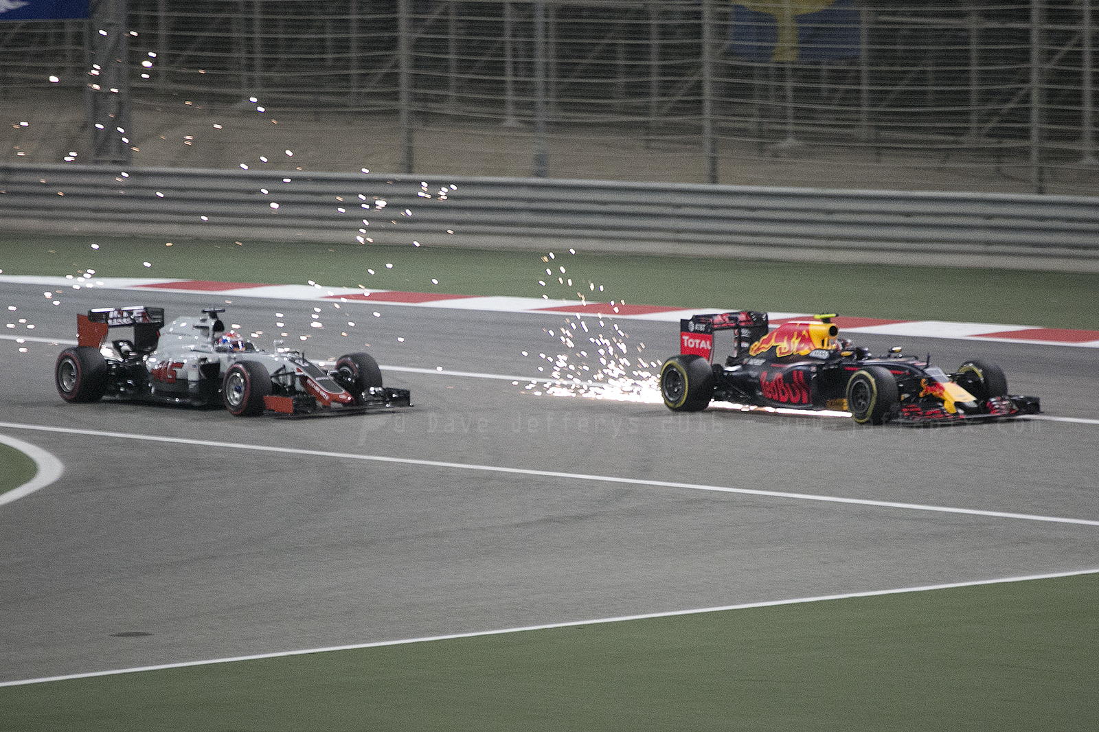 Ricciardo and Grosjean at the 2016 Bahrain Grand Prix